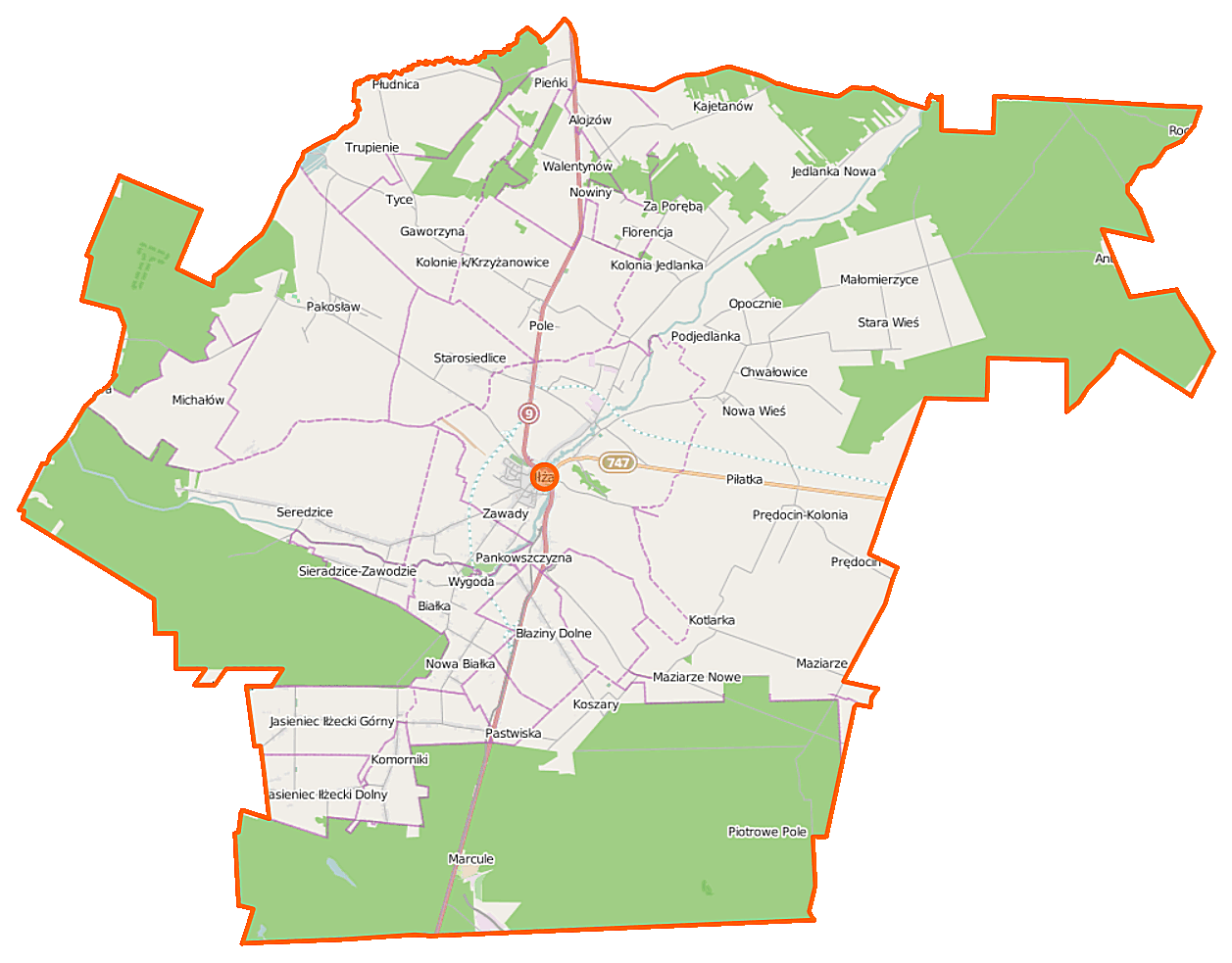 Map of Gmina Iłża, Poland This map of Iłża (gmina) was created from OpenStreetMap project data, collected by the community. This map may be incomplete, and may contain errors. Don't rely solely on it for navigation. Border coordinates51.246021.0848←↕→21.430251.0768